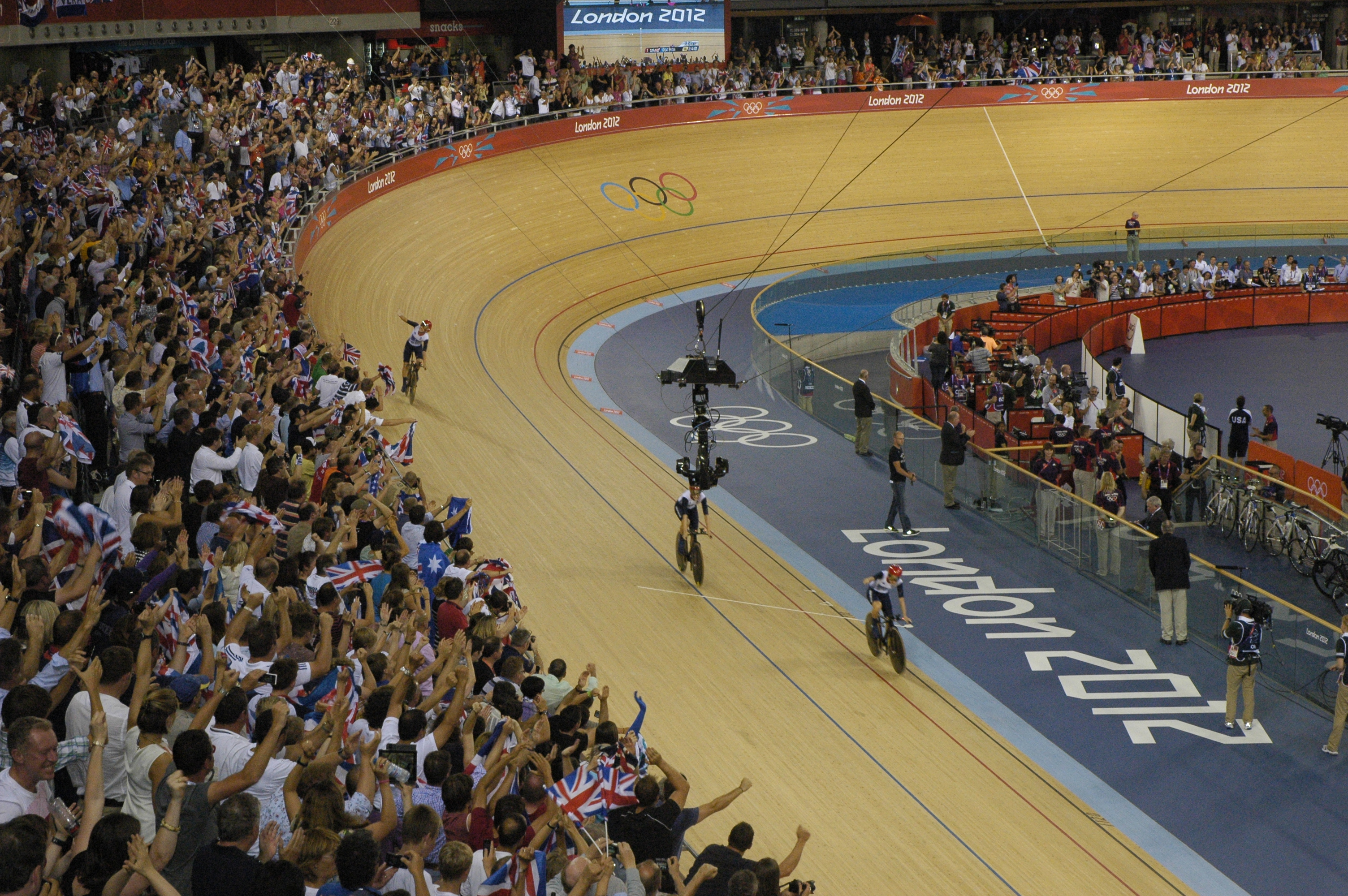 Cycling at the 2012 Summer Olympics – Women's team pursuit. The British team (CT004, 4 August)